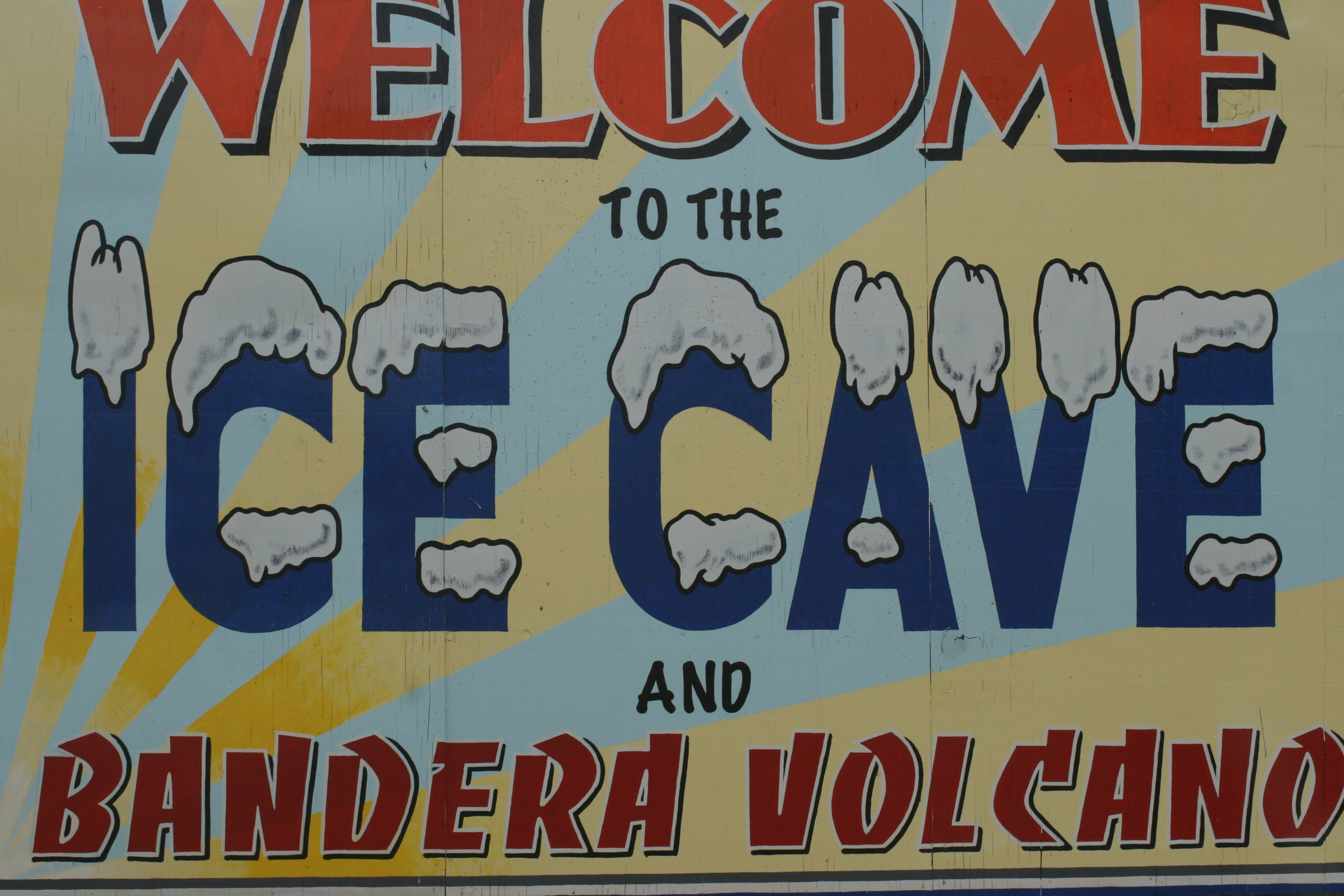 Ice cave sign, New Mexico